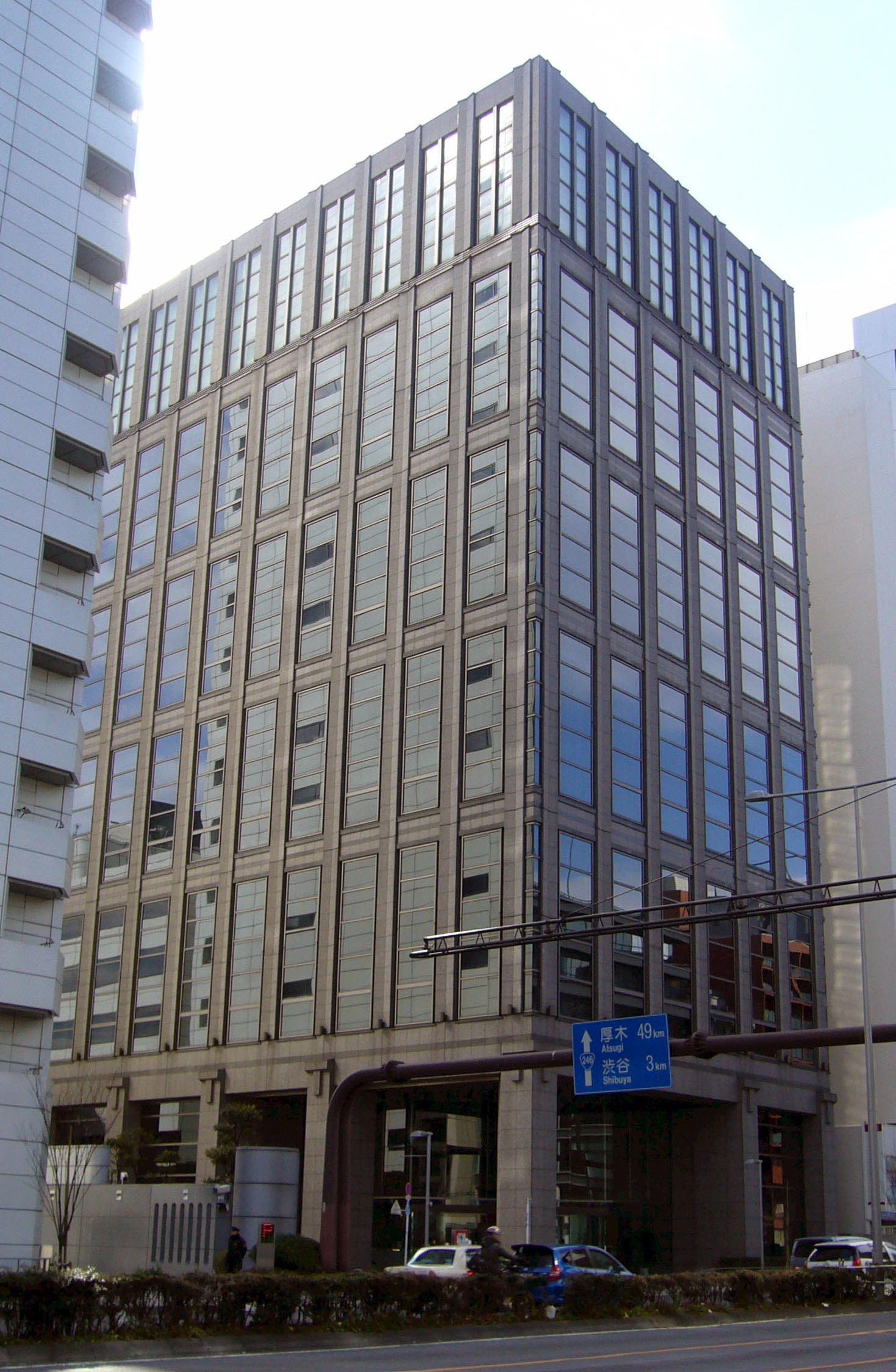 Teikoku Databank (Japanese company for corporate credit research)